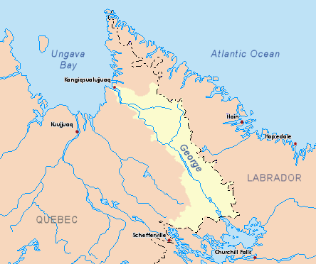 Drainage basin of the George River, Quebec, Canada.